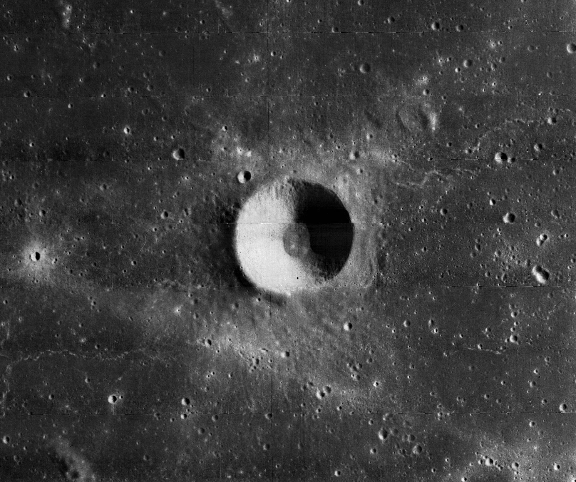 Image of lunar crater Peek with surroundings, taken by Lunar Orbiter 1. The original preview image 1011_med.jpg was reduced in size to one half normal. Current version is full resolution.